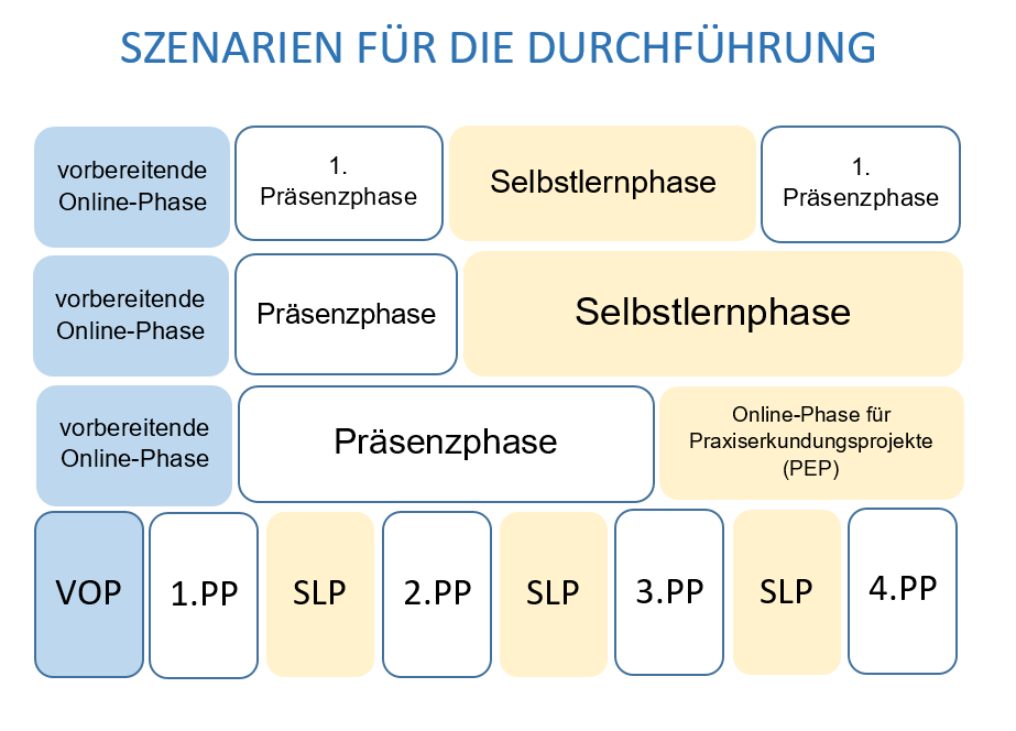 Szenarien für die Durchführung